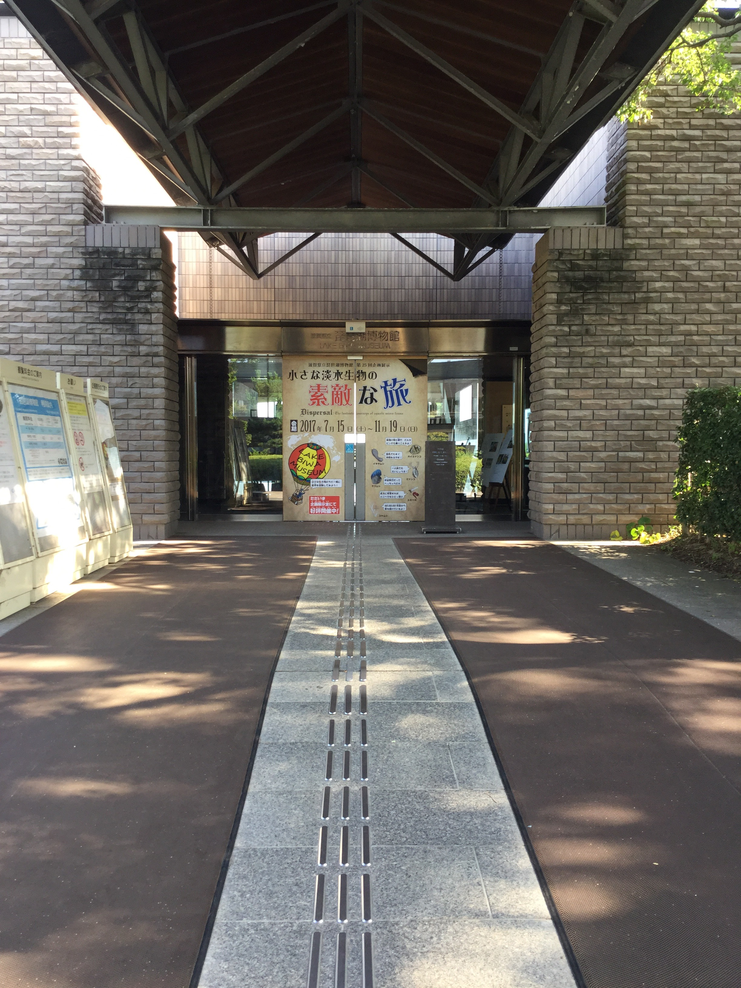 This is the entrance of LBM.